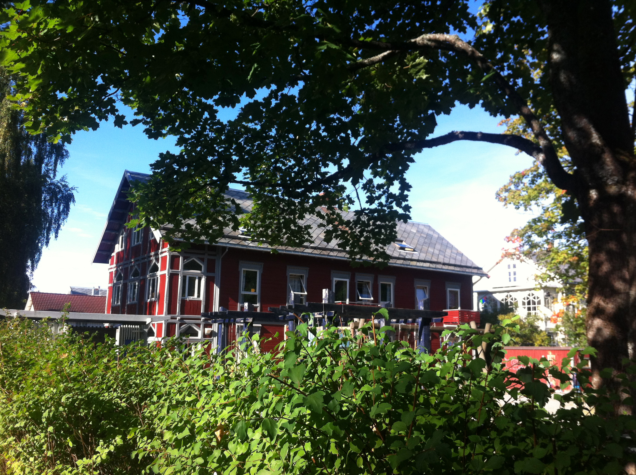 A kindergarten in Trondheim, Norway. The old house was originally a villa with more (two or four?) flats. The architects Brantenberg, Brantenberg and Hiorthøy converted the wooden house into a kindergarten in the early 1970s. The received a prize for their work in 1976